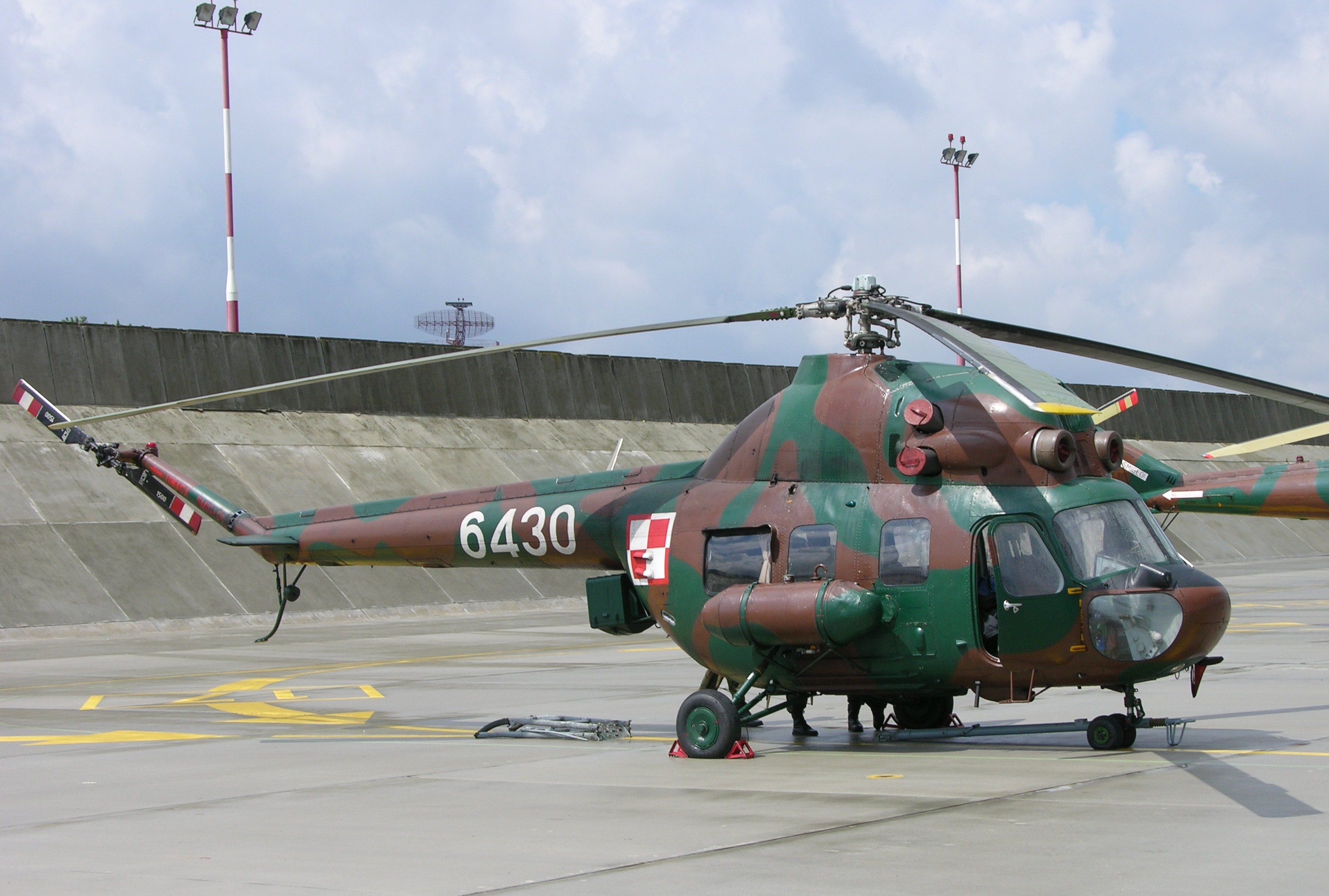 6430 a Polish Mil Mi-2R 'Hoplite' of 56 KPSB